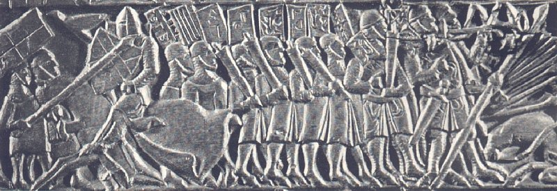 Goedendag on chest of Kortrijk – Flemish soldiers at the Battle of Courtrai (also known as the "Battle of the Golden Spurs"). Troops in the center of the column have the goedendag or plançon, a heavy club with an armour-piercing spike at the top. Pikemen are on either end, the pikeman to the left holding off a charging French knight with his long geldon spear. The more celebrated plançon-wielders are the great majority in this image, but in actual formations the pikemen armed with the geldon would have predominated.